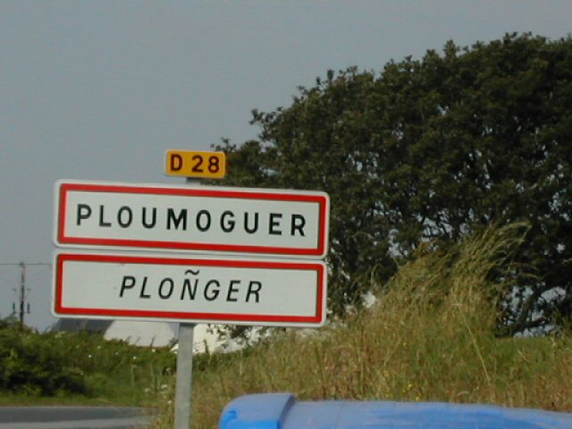 Roadsign of Ploumoguer.